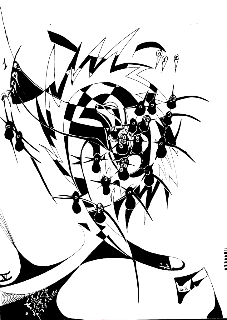 This is a artistic steganography try. It talks about our planet.